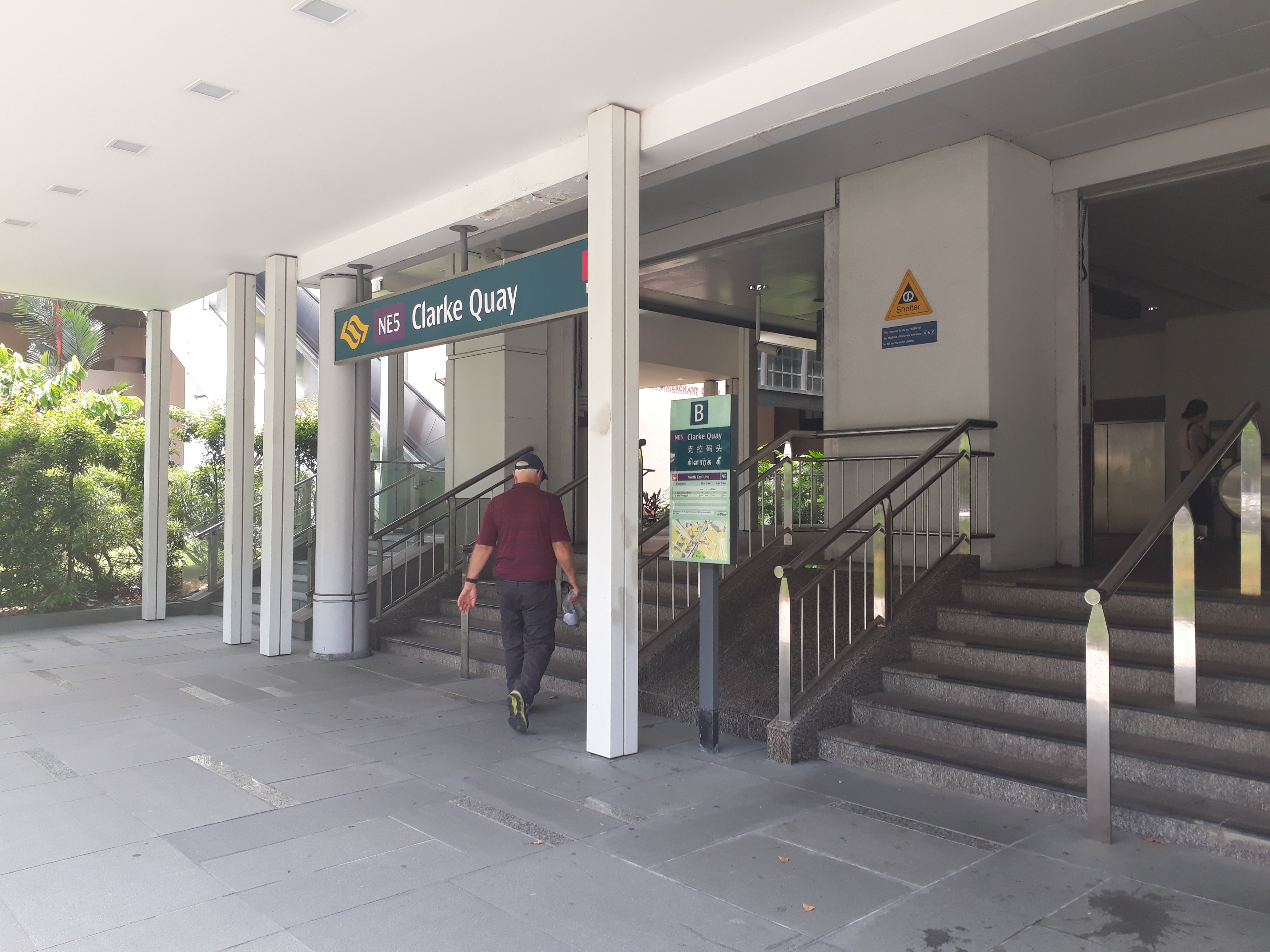 Exit B of Clarke Quay